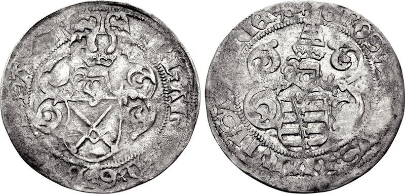 GERMANY, Sachsen-Ernestinische Linie (Kurfürstentum und Herzogtum). Friedrich III der Weise (the Wise), with Johann and Albrecht. 1486-1525. AR Zinsgroschen (26mm, 2.54 g, 10h). Schneeberg mint. Dated 98 (1498). FRI • ΛL • IO • D • G • DVCЄS • SΛXOn (saltire stops), coat-of-arms surmounted by crested helmet facing slightly left / GROSVS • nOVVS • DVCVM • SΛXOnIЄ 98 (star) (saltire stops), coat-of-arms surmounted by crested helmet facing slightly left. Levinson I-391a. VF, toned.